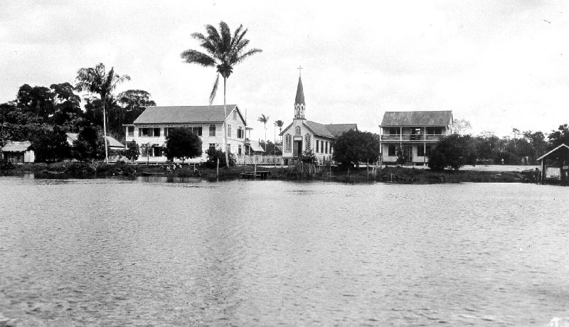 Subject: churches